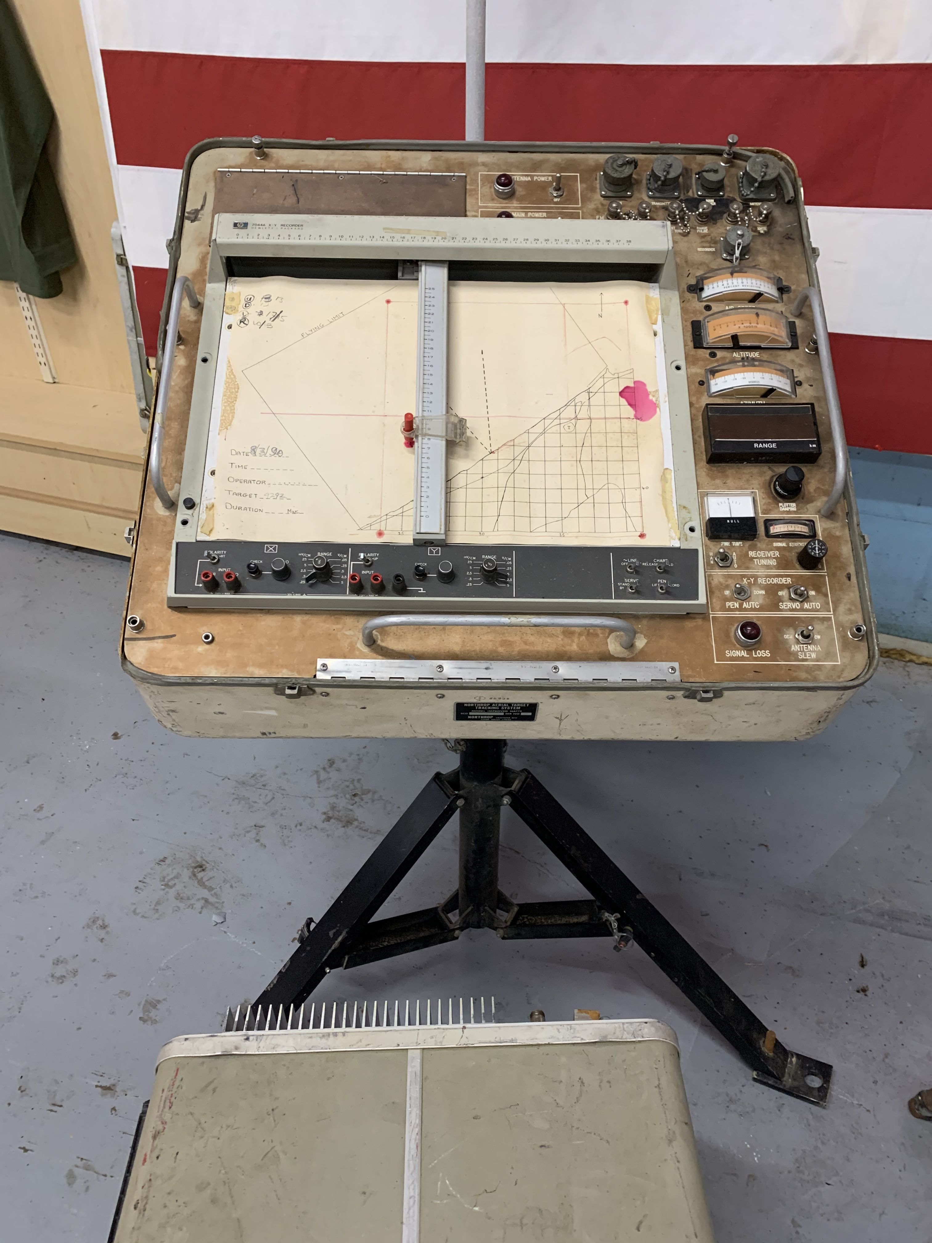 BTT Aerial Target Tracking System